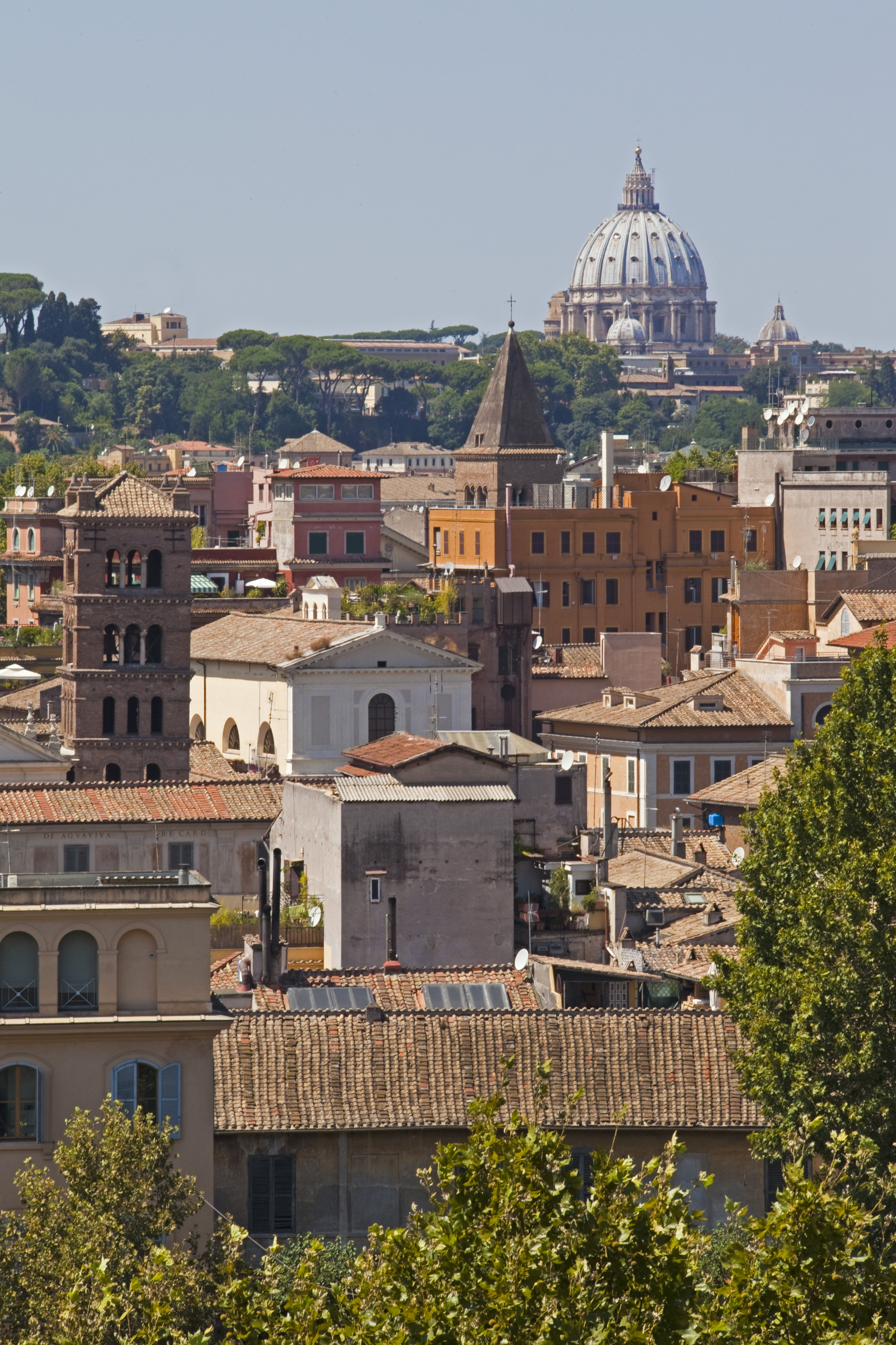 View from Aventin hill to St. Peter's